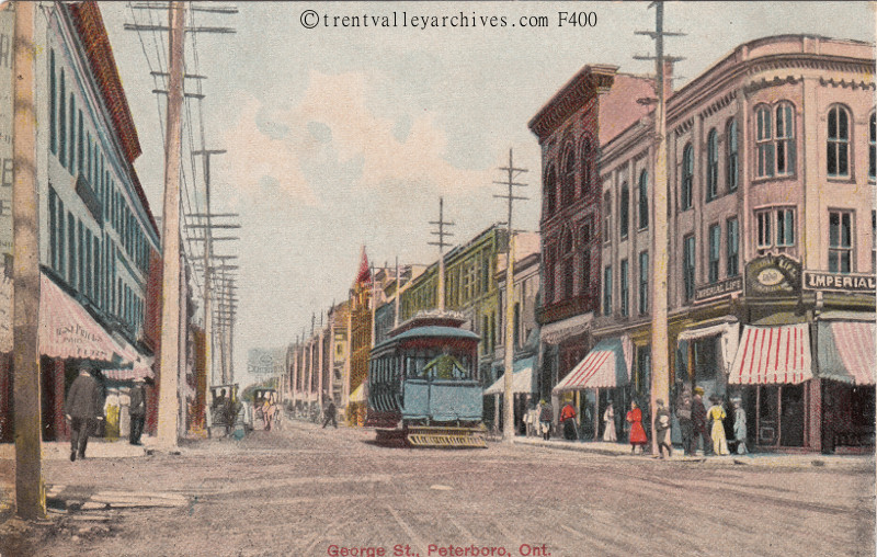 Postcard of a streetcar, on George Street, in Peterborough, Ontario.